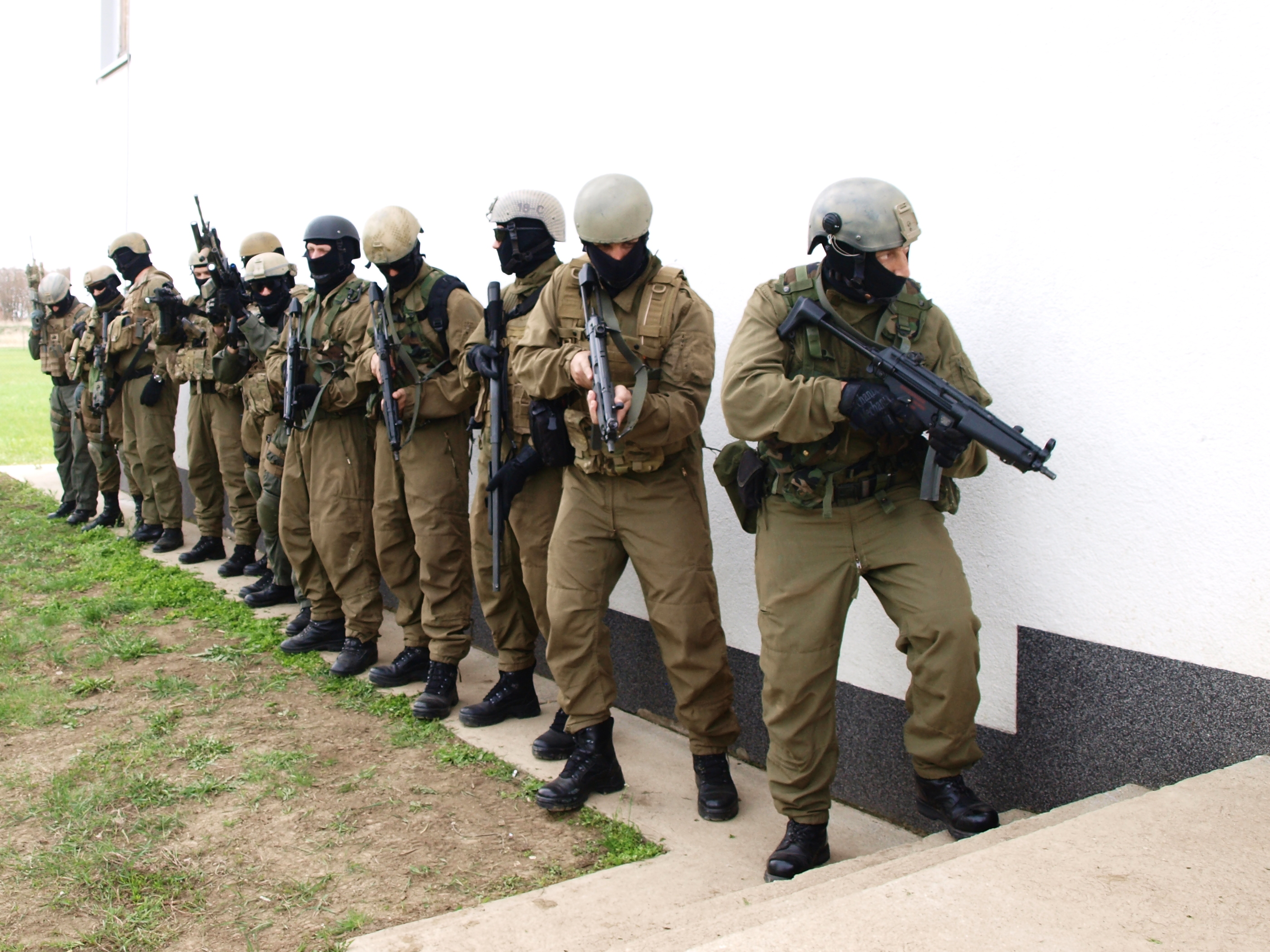 Operators of Hungarian Ground Forces's 34th ’László Bercsényi’ Special Operations Battalion (KMZ) about to storm the unit's own Killing House